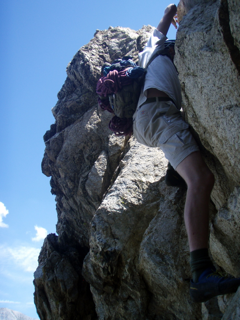 scrambling